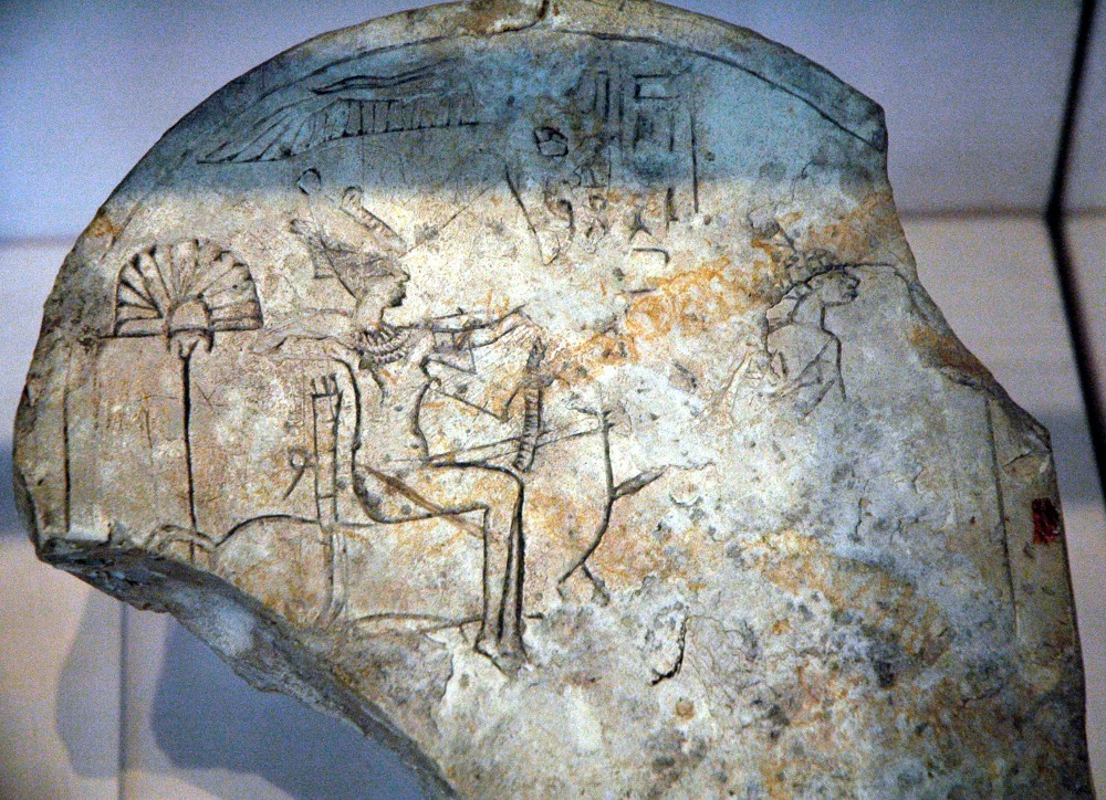 Egyptian stele with the near-eastern goddess Anat on a horse. Limestone, from Deir el-Medina, New Kingdom (18.-20. Dynastie), Inv.: S. 1308